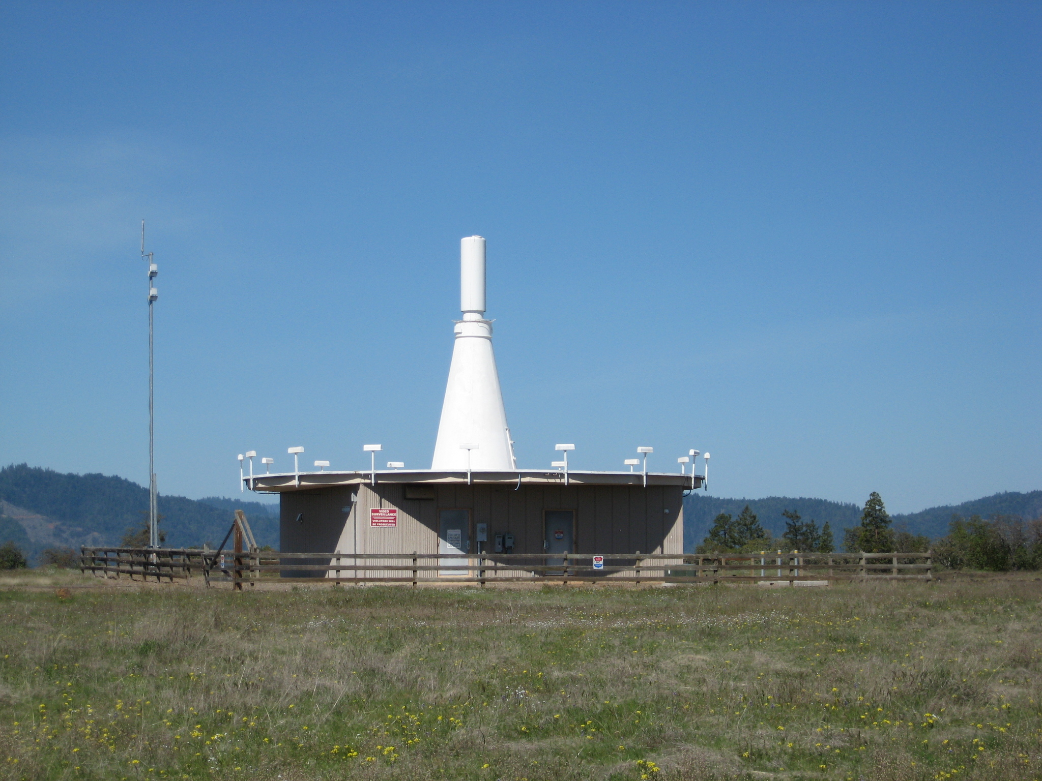 This picture was taken by my wife (who of course has no problem letting me upload it). She snapped it on Upper Table Rock, part of Upper and Lower Table Rock. The coordinates are 42°28′46″N 122°54′47″W / 42.4795742°N 122.9129336°W and the elevation is 2,083 feet (635 m).[1]